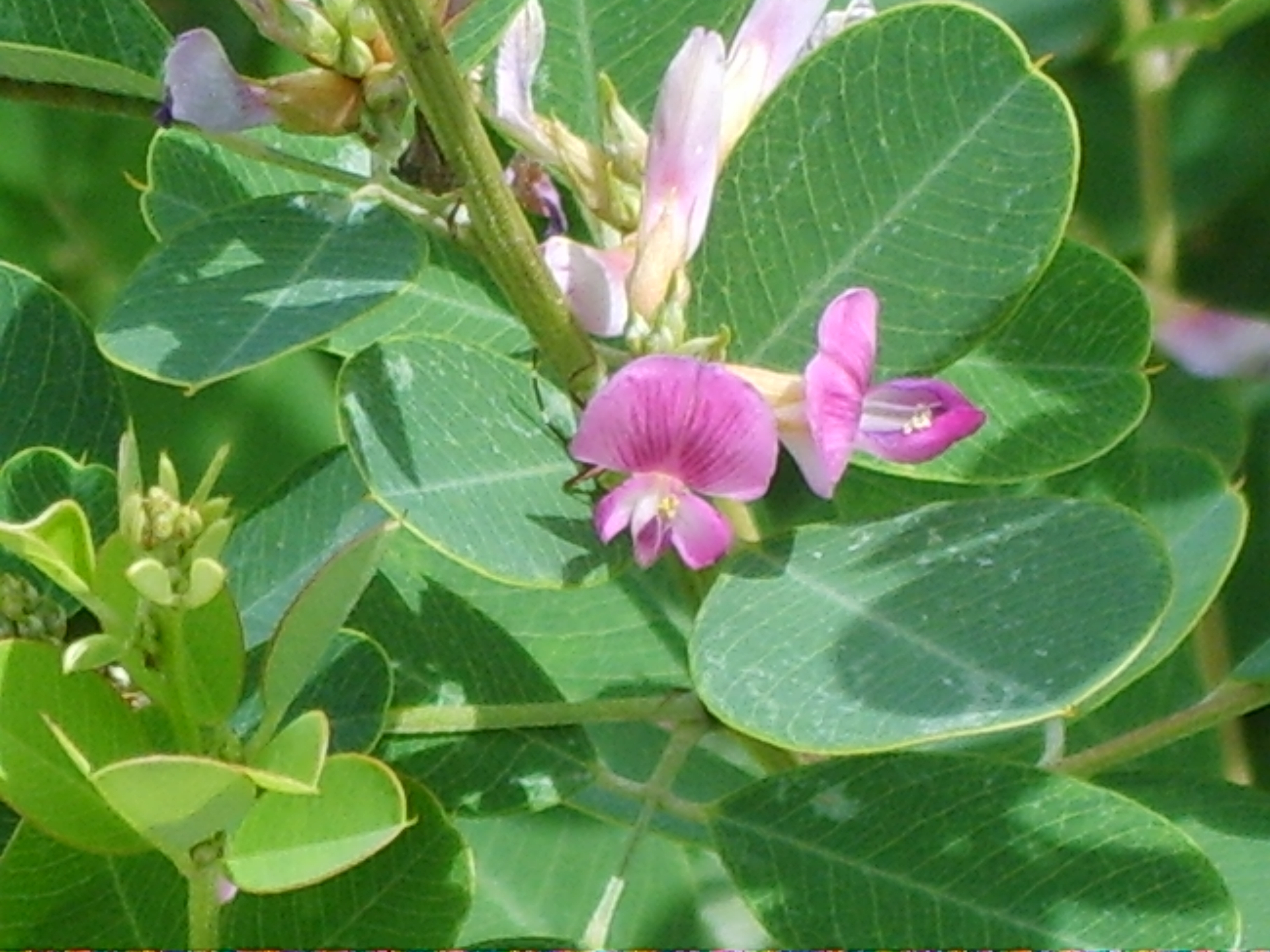 Lespedeza cyrtobotrya in Bupyung, Korea